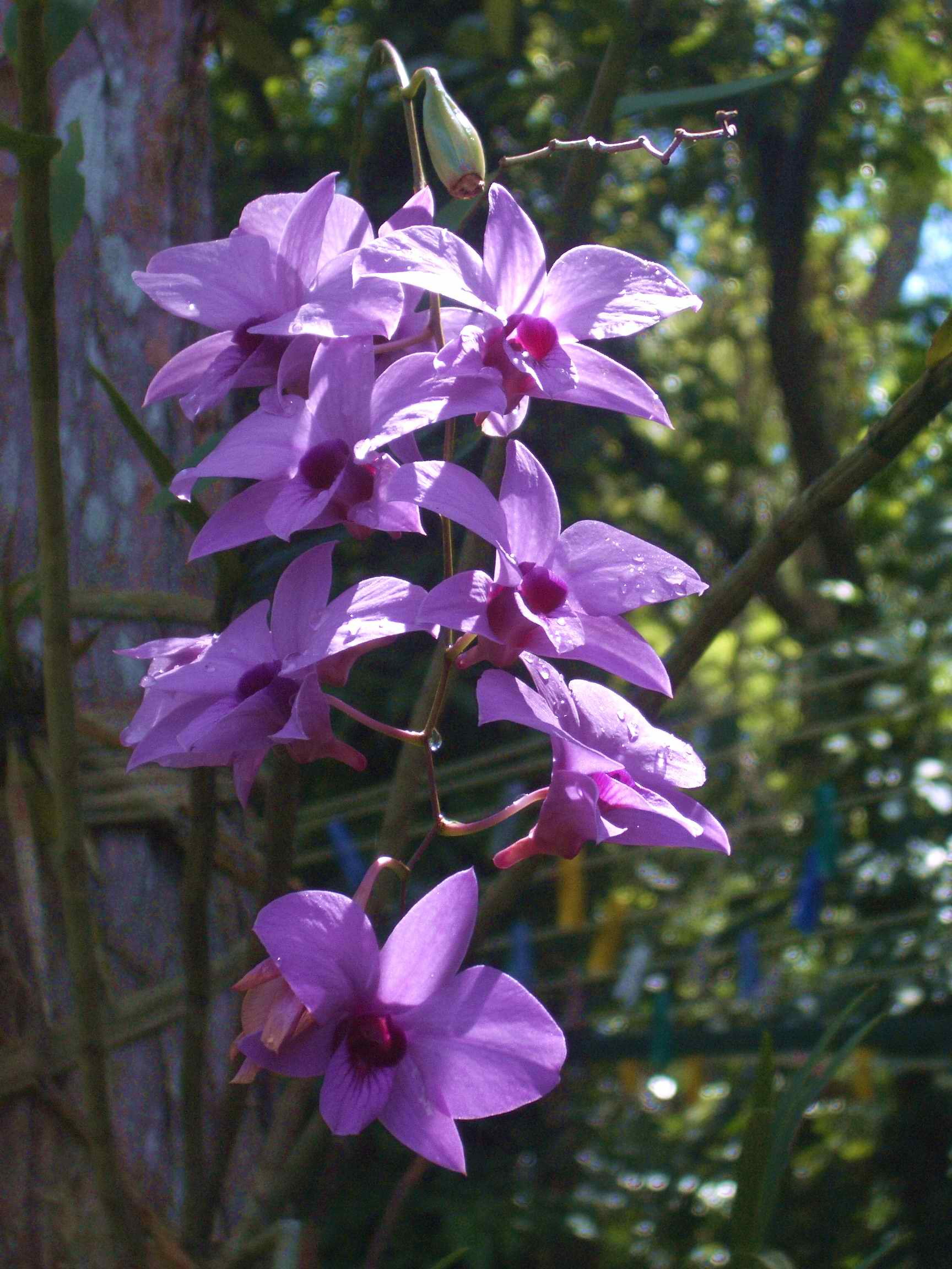 Dendrobium